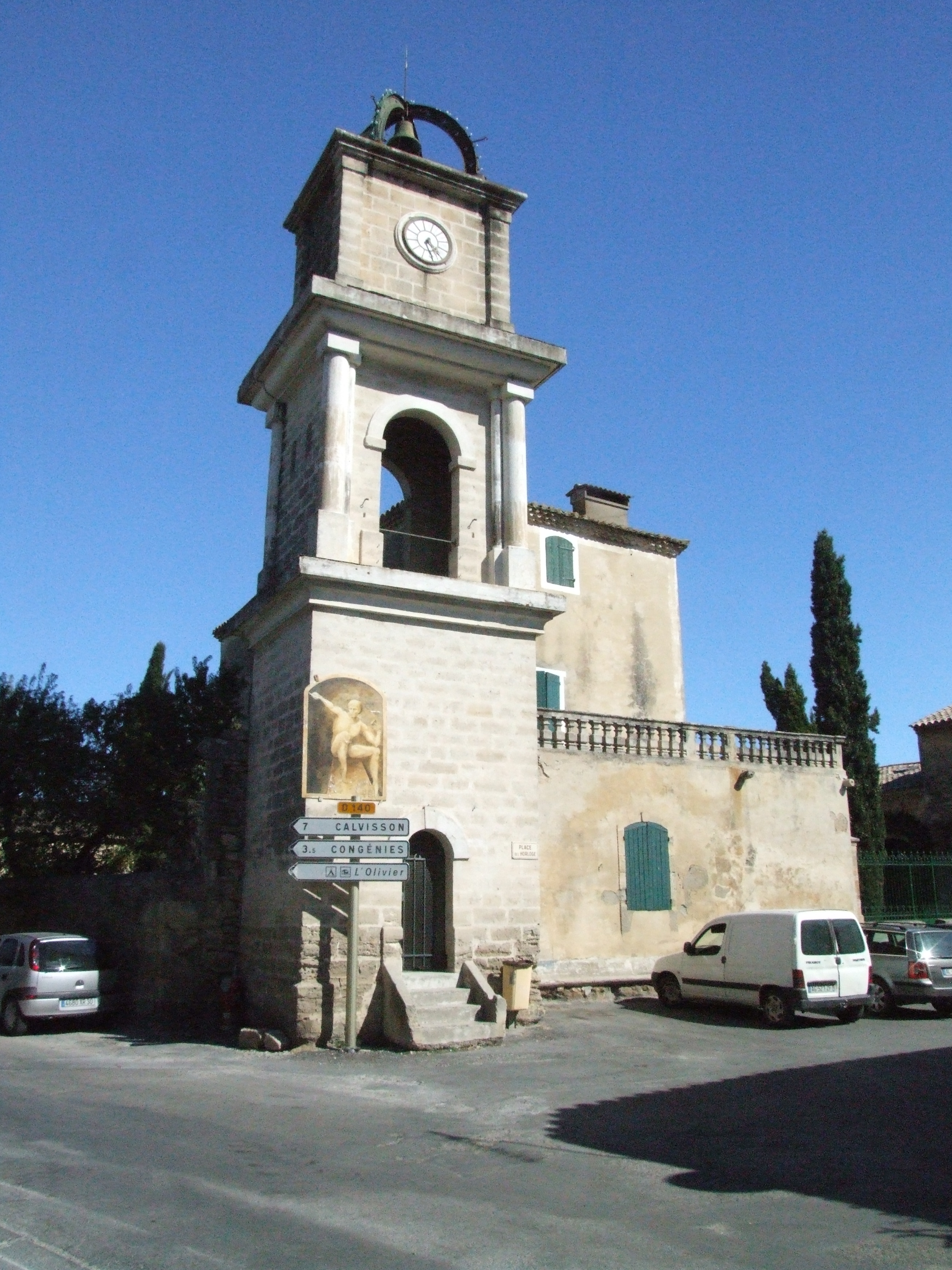 The commune of Junas, ( post code is F30250 and INSEE 30136) is situated north of the River Vidourle, south of Sommières in the departement of Gard. in the region Languedoc-Roussillon in southern France.The mediaeval village centre is similar to its neighbours, but the commune us noted for its quarry which dates from Roman times. Place de Horlorge